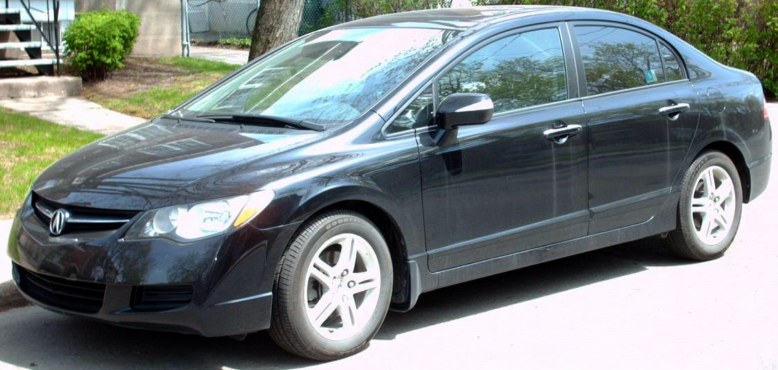 2006 Acura CSX photographed in Montreal, Quebec, Canada.